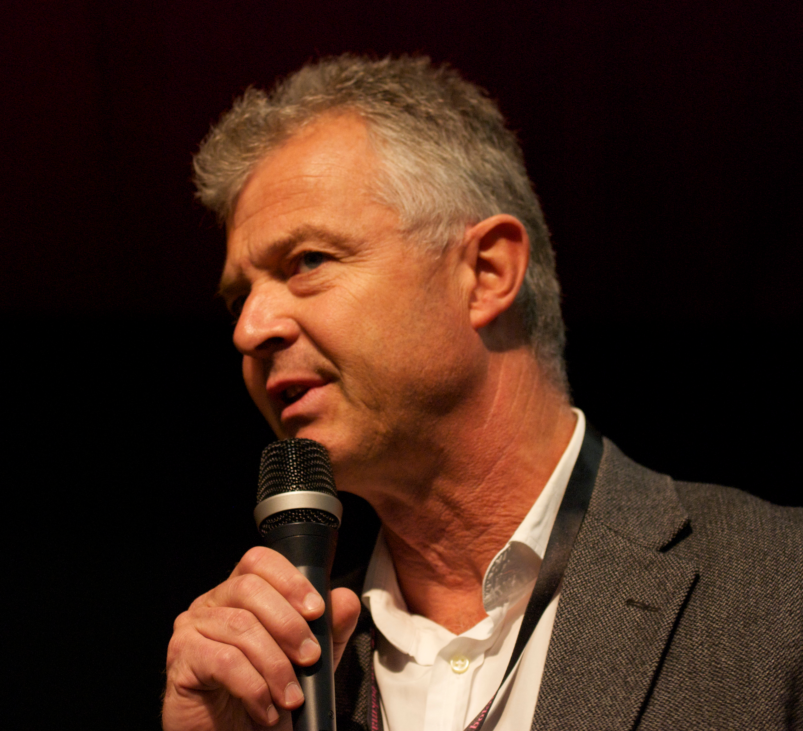 Anders Ahlberg at Göteborg Book Fair 2011.